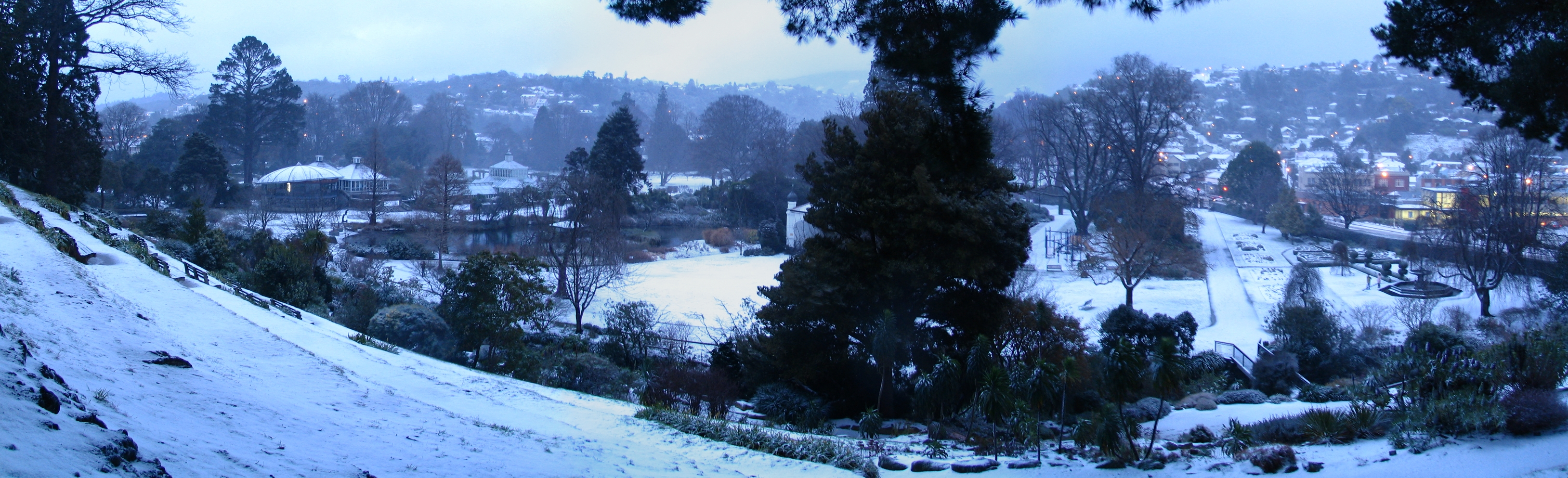 Panorama of Dunedin Botanic Gardens under snow in winter 2011. Stitched with Hugin.